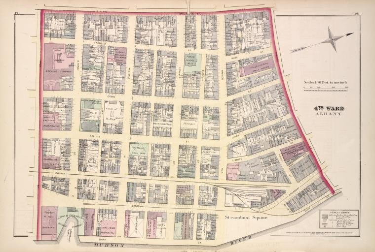 Map of the historic 4th Ward of Albany, New York in 1878 including the Pastures Historic District